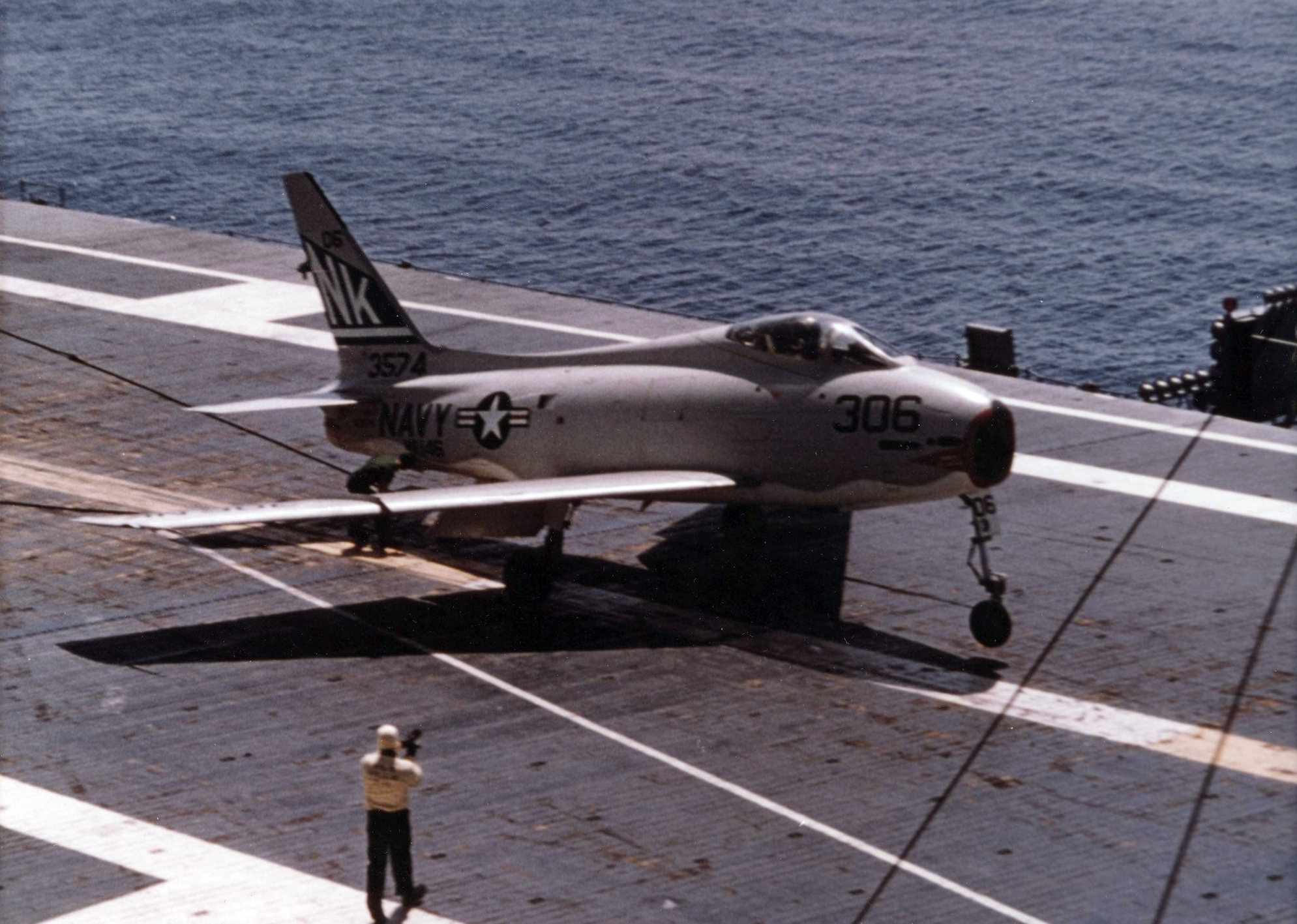 A U.S. Navy North American FJ-4B Fury (BuNo 143574) from Attack Squadron VA-146 Blacktails after landing aboard the aircraft carrier USS Bennington (CVA-20) during carrier qualifications off Southern California (USA) in April 1958. VA-146 was assigned to Carrier Air Group 14 (CVG-14) aboard the aircraft carrier USS Ranger (CVA-61).